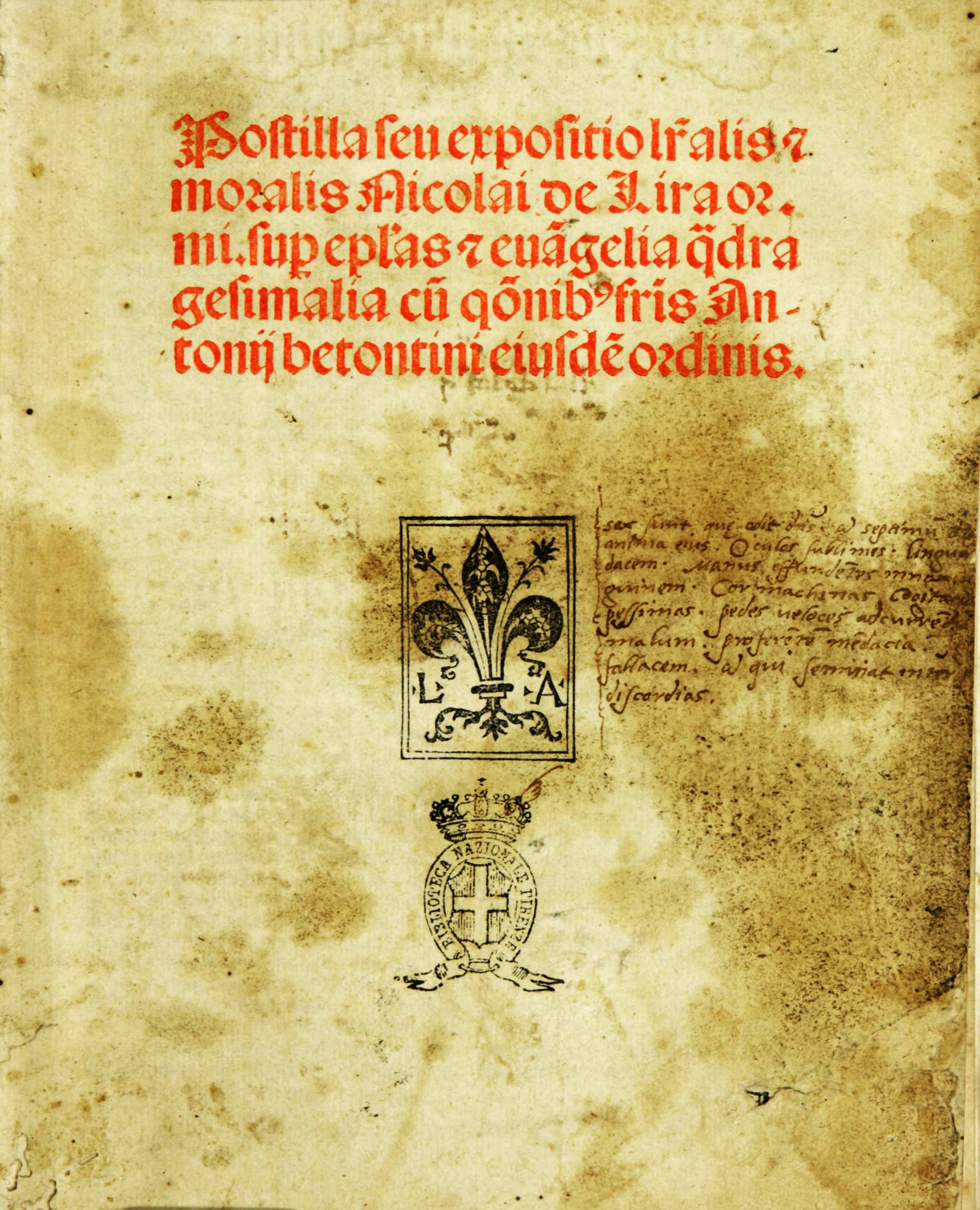 Title page of the Postilla seu expositio litteralis et moralis … of Nicholas of Lyra, printed by Johann Emerich for Lucantonio Giunti, Impressum venecijs [Venice] : Per Ioannem Emericum de Spira alemanus, Anno salutis. Mccccxciiij. octavo kal[end]as Iunias [25 May 1494]